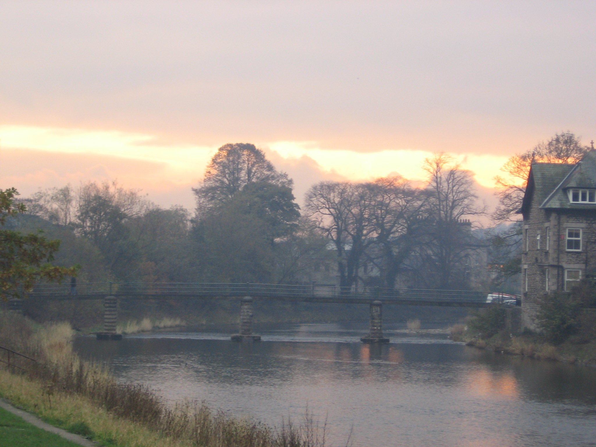 Footbridge over the River Kent in Kendal at between New Road (left) and Abbott Hall Park. Looking south, ie. downstream. the photo from geograph shows it looking upstream. Author Peter Moore, self-made image.